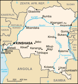 CIA-WF map of the Democratic Republic of the Congo with German caption